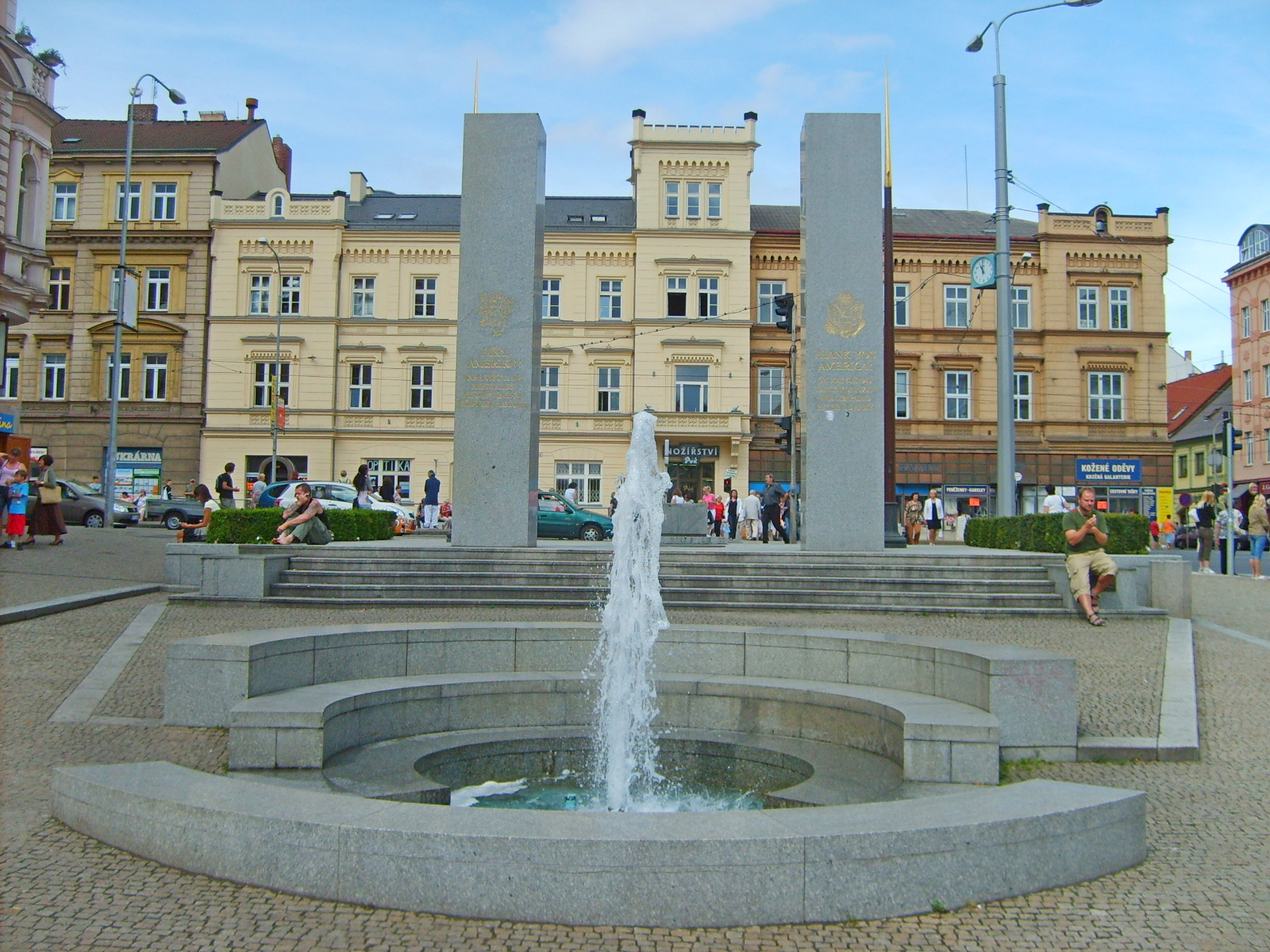 Monument "Thank you America" to remember freedom from Nazis by US army in May 1945. This monument takes place at important Pilsner crossing "U Práce".